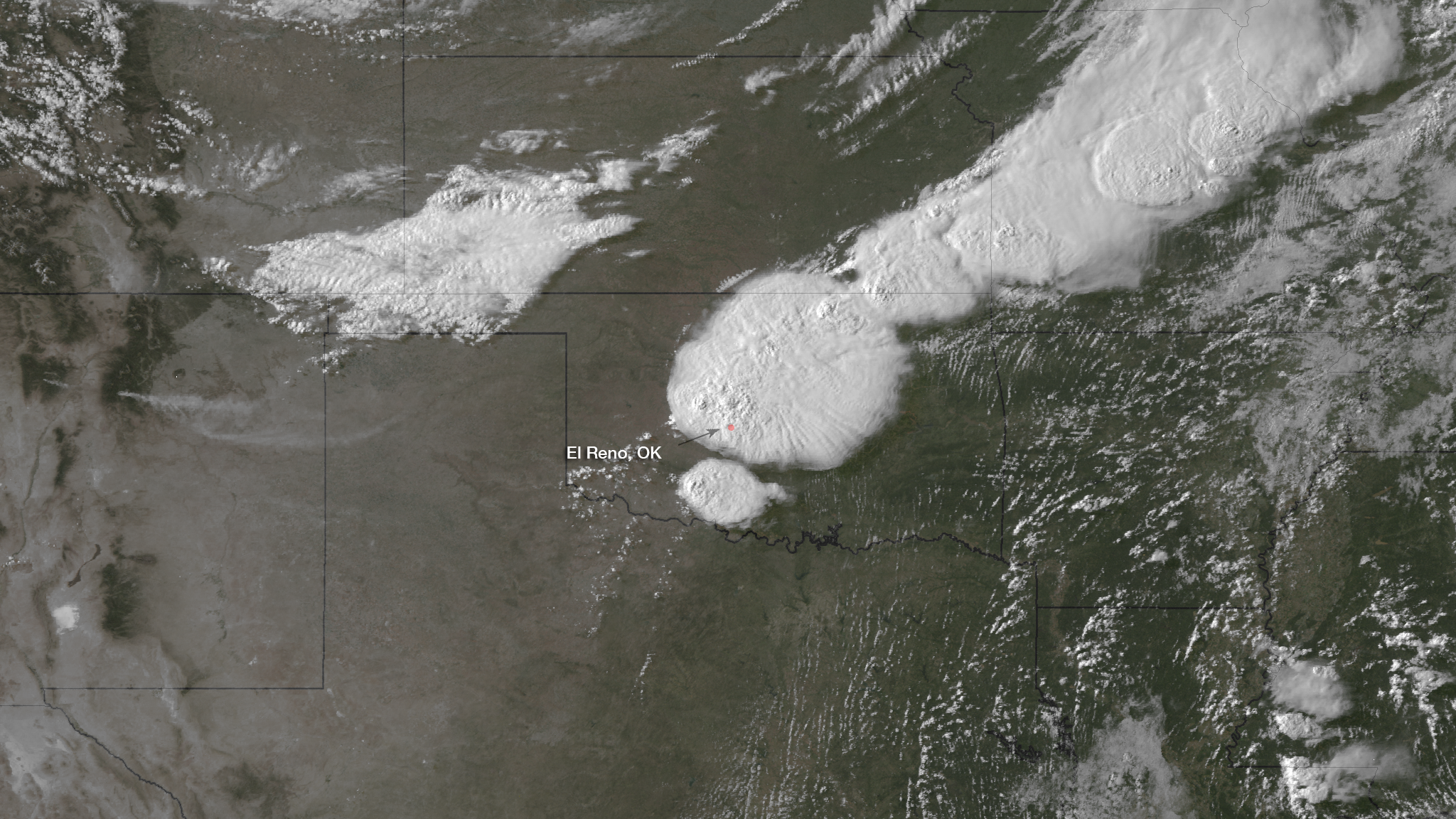 This image from GOES East, taken at 2310Z on May 31, 2013, five minutes after the NOAA National Weather Service Storm Prediction Center received a report of a tornado on the ground, shows the massive system that spawned a long track tornado, assigned a rating of EF-5 on June 4, 2013, that caused extensive damage in areas around El Reno and Union City, Oklahoma. Three seasoned tornado researchers were among the deaths attributed to an extended tornado outbreak from May 26 through May 31, 2013.